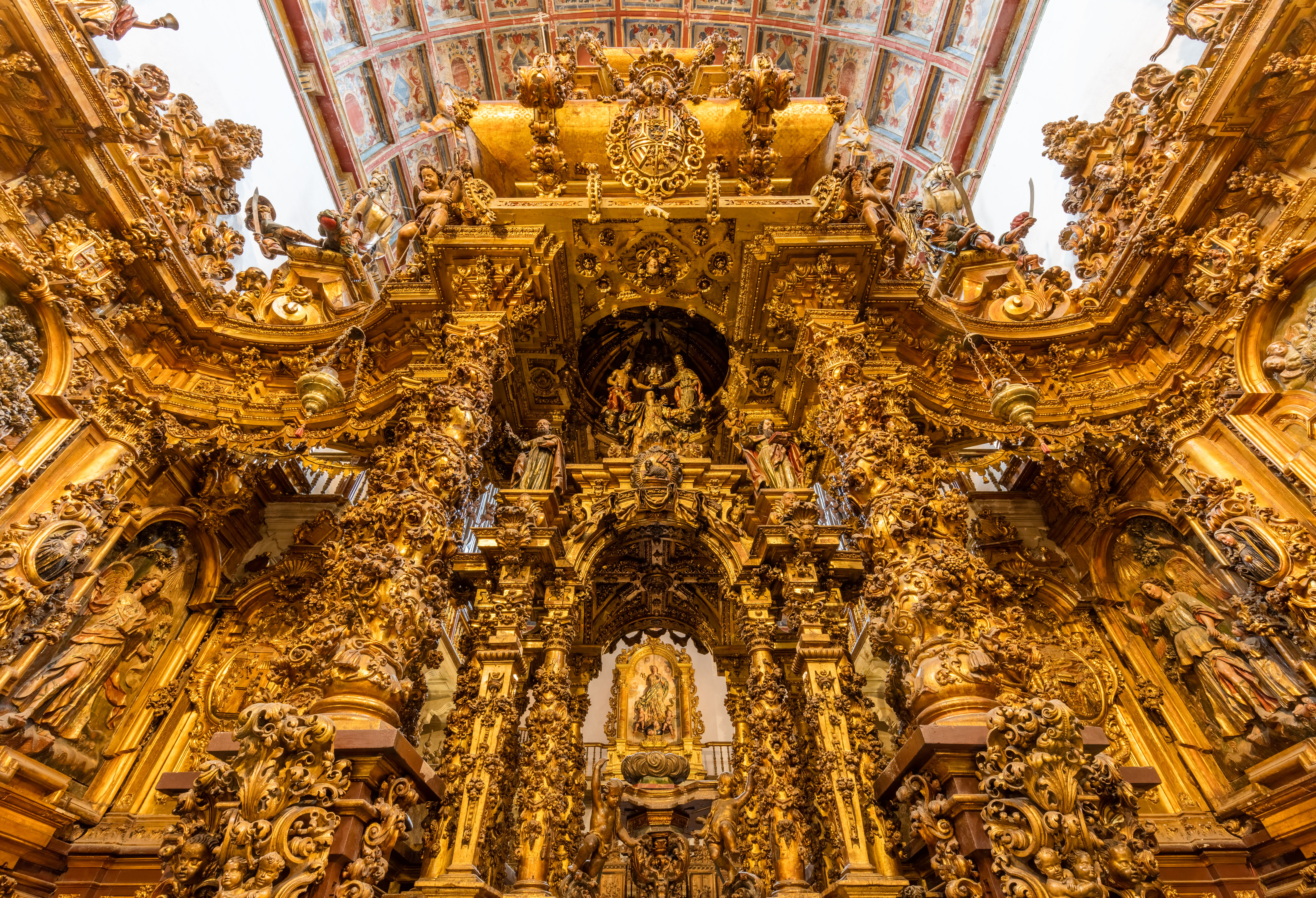 San Martin Monastery, Santiago de Compostela, Spain